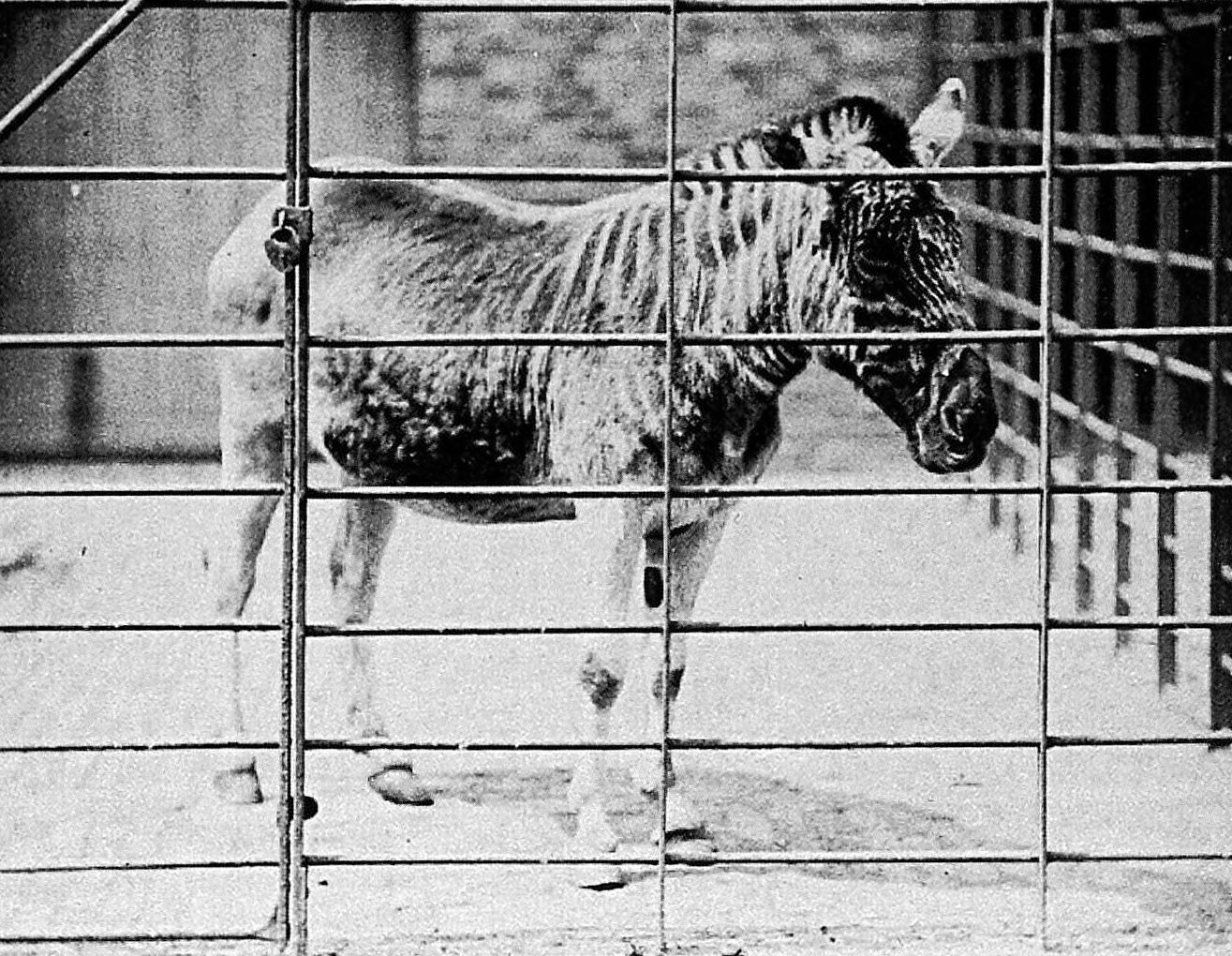 Quagga (Equus quagga quagga) is an extinct sub-species of zebra. Mare, London, Regent's Park ZOO. This is the fifth known image (rediscovered in 1991) of the only live specimen ever photographed.